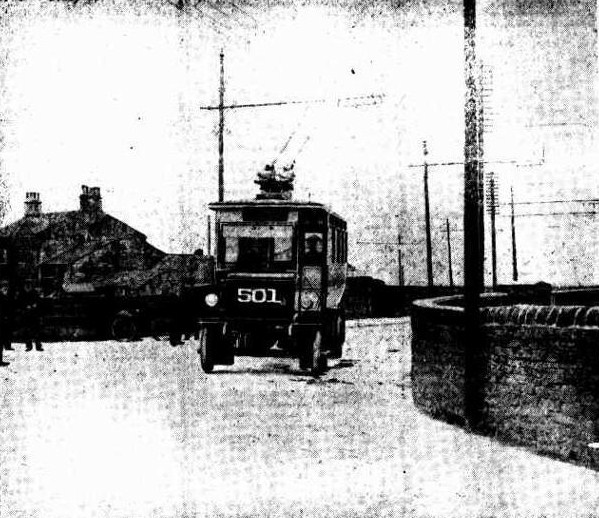 One of the original Leeds trolleybuses. The photo was published in a newspaper in Launceston, Tasmania, Australia, as the illustration for an article headed "Railless Traction - The "Trolley Bus". The caption to the photo reads: "One of the Railless electric cars in use at Leeds." Nearly 40 years later, on 21 December 1950, Launceston became the last Australian city to set up a permanent trolleybus system. By then, the Leeds trolleybus system had been closed for more than 20 years.